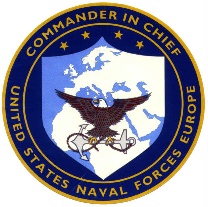 Logo of the Commander in Chief, U.S. Naval Forces Europe; since October 2002 just Commander, U.S. Naval Forces Europe